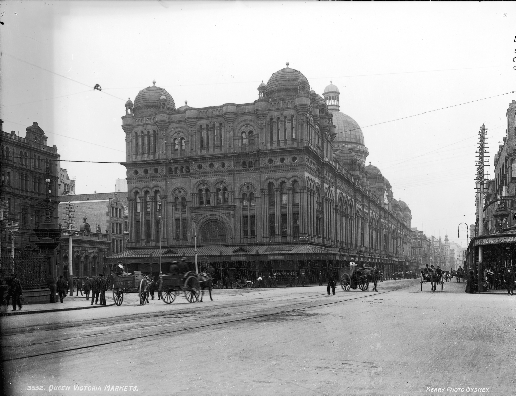 'Sydney City' Pictures from The Powerhouse Museum This files was posted to Flickr by The Powerhouse Museum (See their website for further information). Many thanks to the Powerhouse Museum for helping release this wonderful material. This tag does not indicate the copyright status of the attached work. A normal copyright tag is still required. See Commons:Licensing for more information.